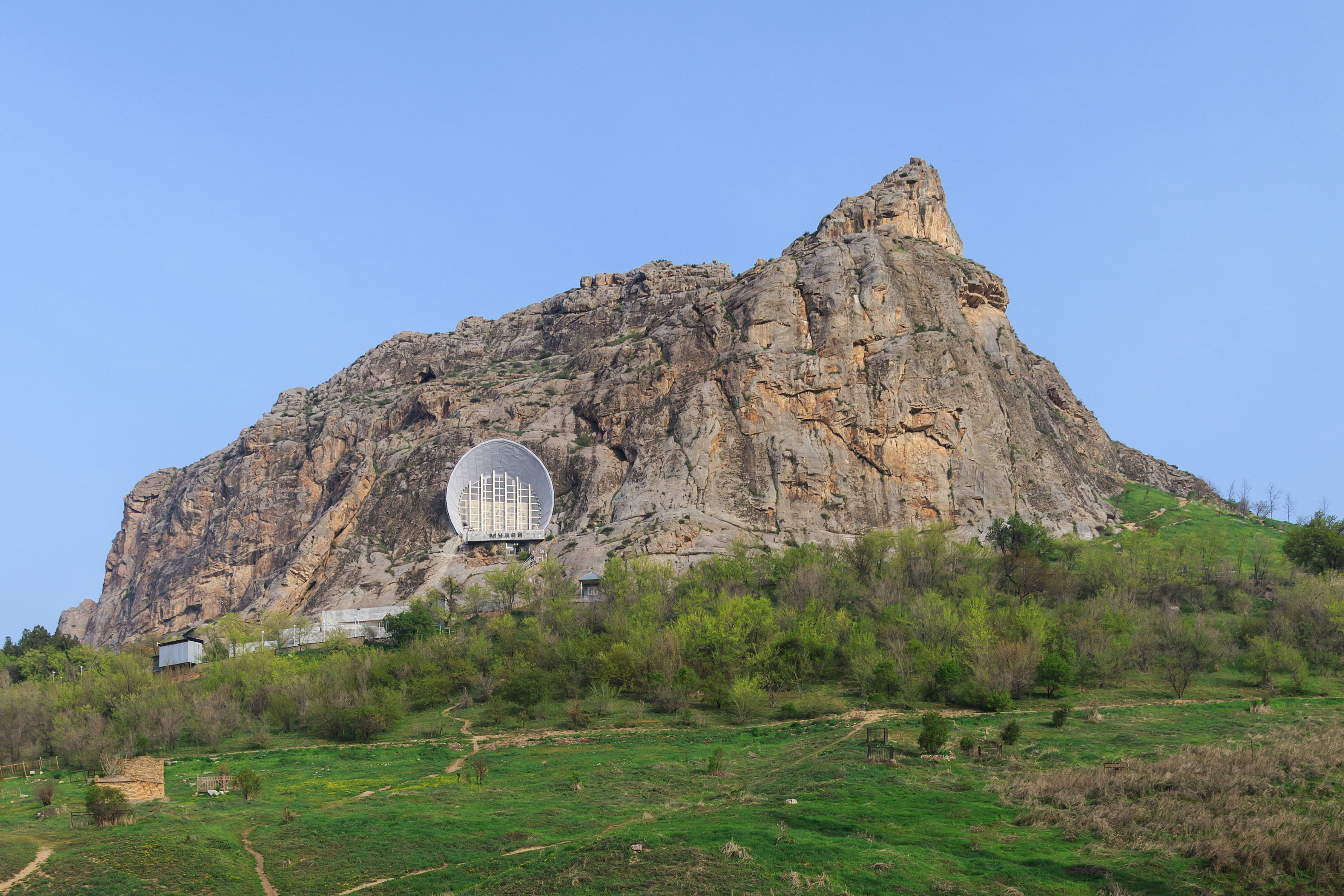 Sulayman Mountain in Osh, Kyrgyzstan